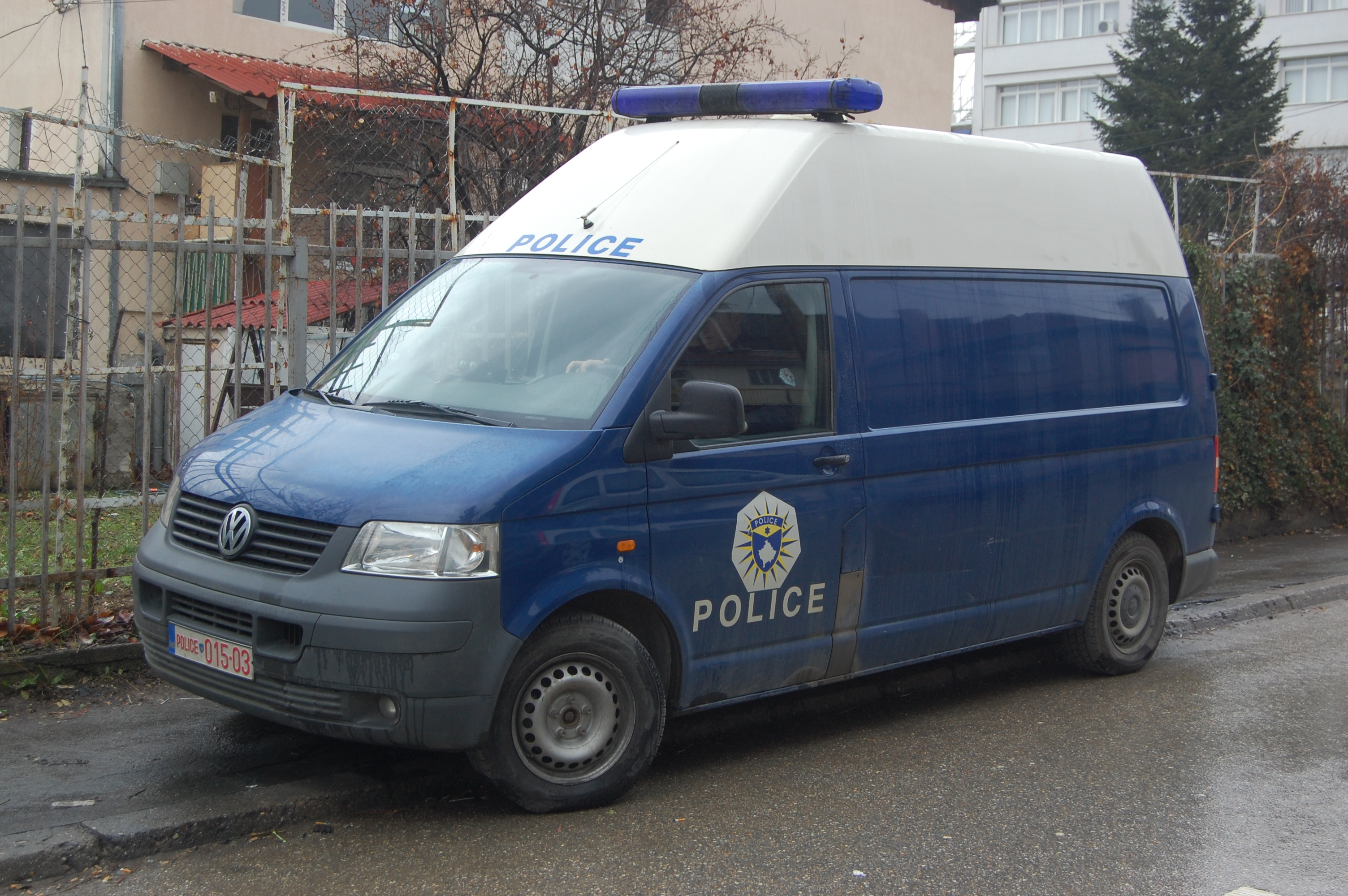 Republic of Kosovo police Volkswagen vehicle 015-03 outside Police Station 2 (the white building, top right), in the capital, Pristina.